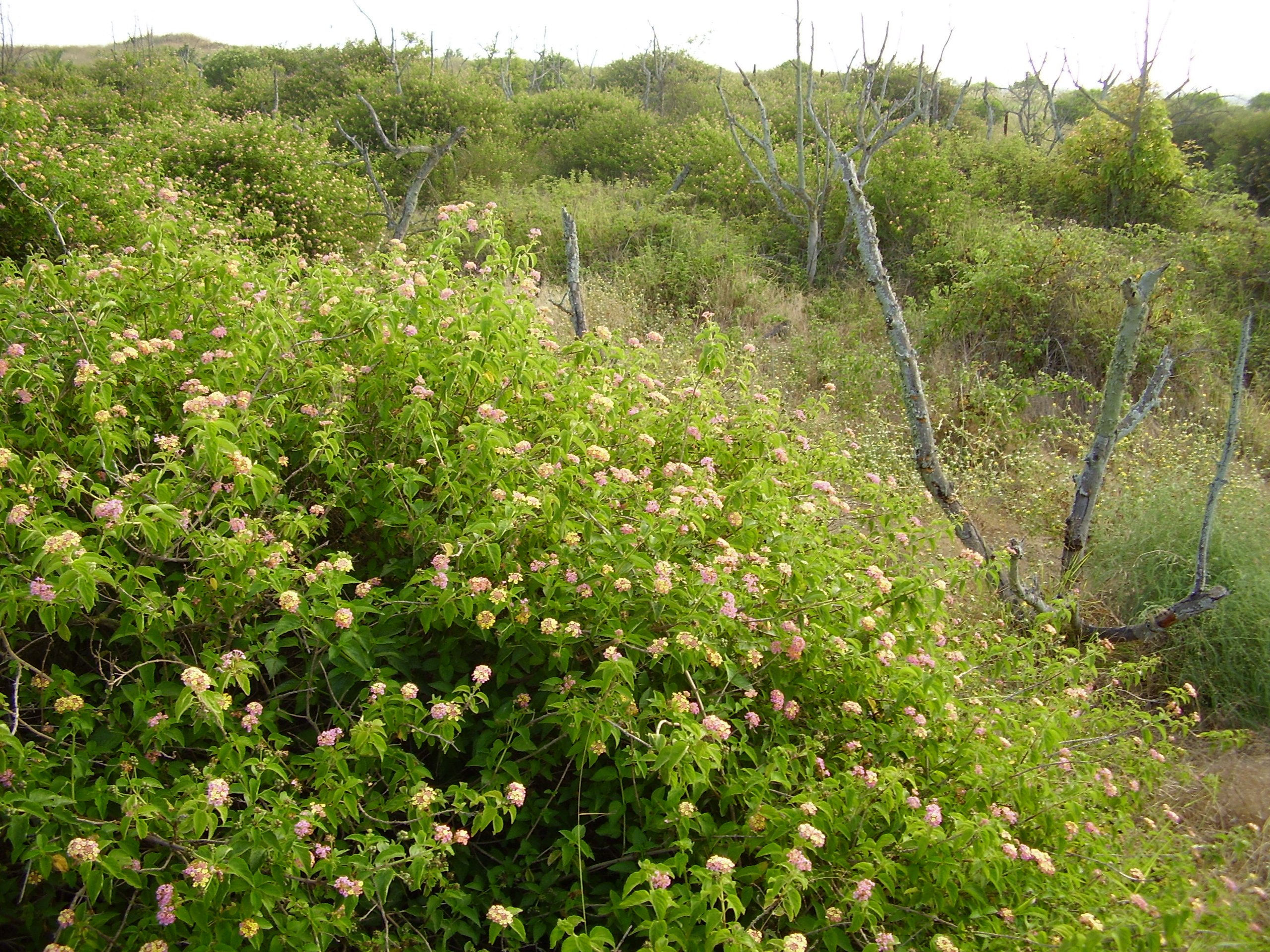 Lantana Invasion of abandoned avocado plantation; Pardes Hanna, Israel; May 27, 2006.